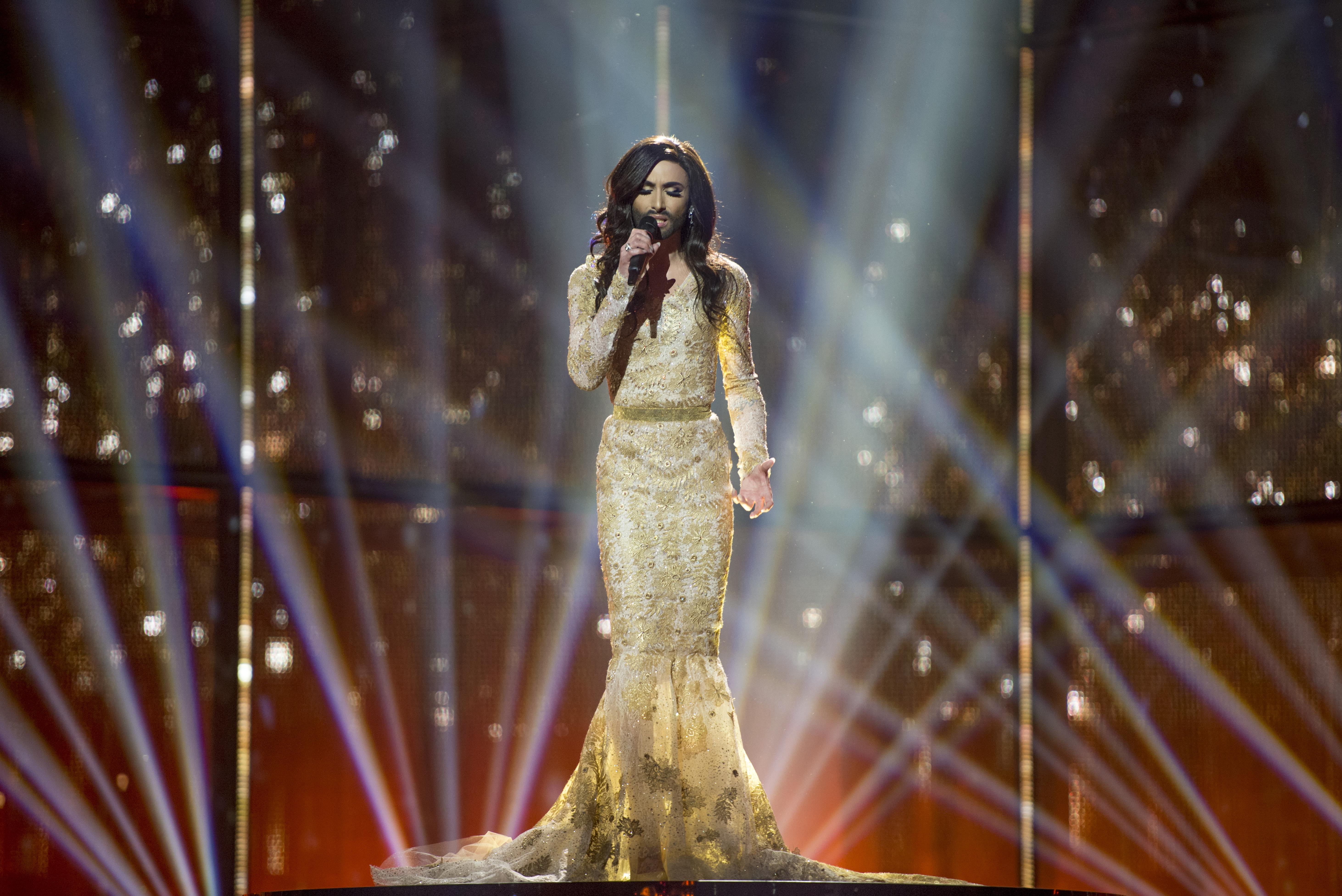 Conchita Wurst representing Austria with the song "Rise Like a Phoenix" during the first dress rehearsal of the second semi final of the Eurovision Song Contest 2014 Copenhagen. (Help translate this text)